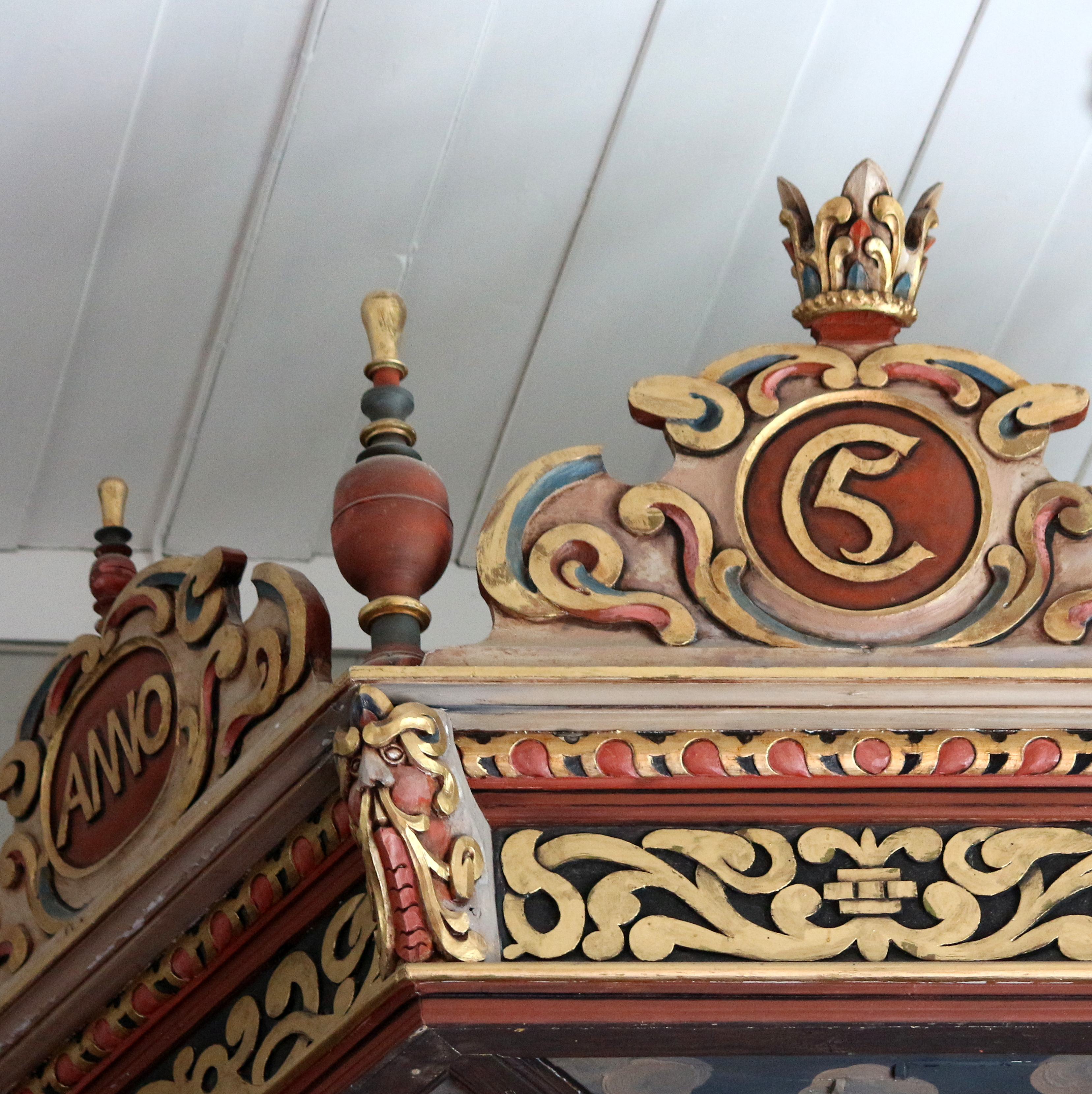 Leksvik church - detail from top over the pulpit.